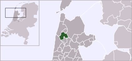 Locator map of Dutch municipalities in Noord-Holland (LocatieHarenkarspel.png)